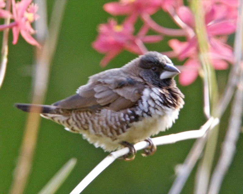 Bronze mannikin at Hôtel des Mille Collines (aka Hotel Rwanda), Kigali, Rwanda on the 14th of August, 2009 ChiShona: Zadzasaga Kiswahili: Tongo pofu Xitsonga: Rijajani IsiXhosa: Ingxenge Distribution: ssp: 690V0110